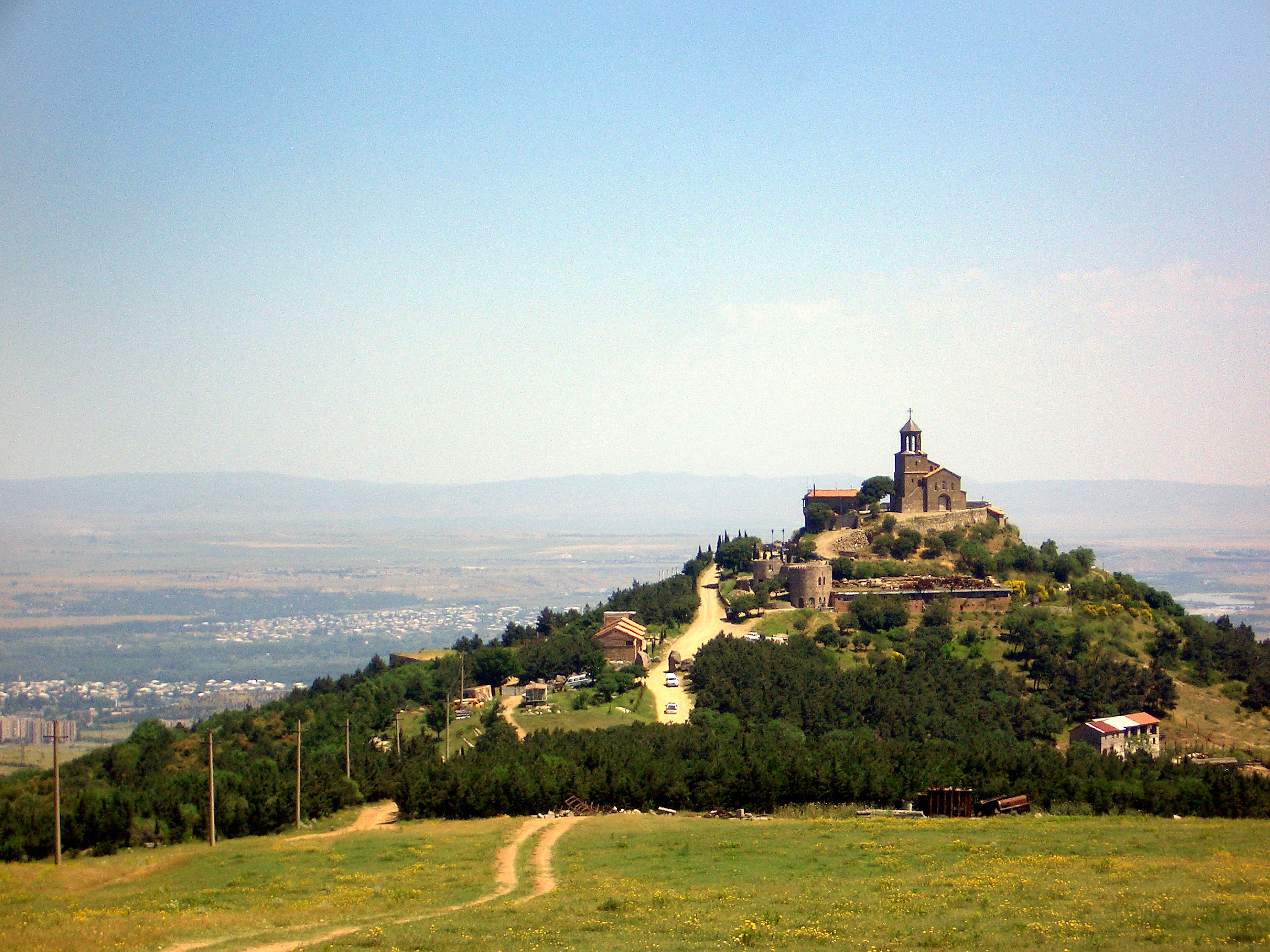 Shavnabada Monastery in Shida Kartli region, Georgia